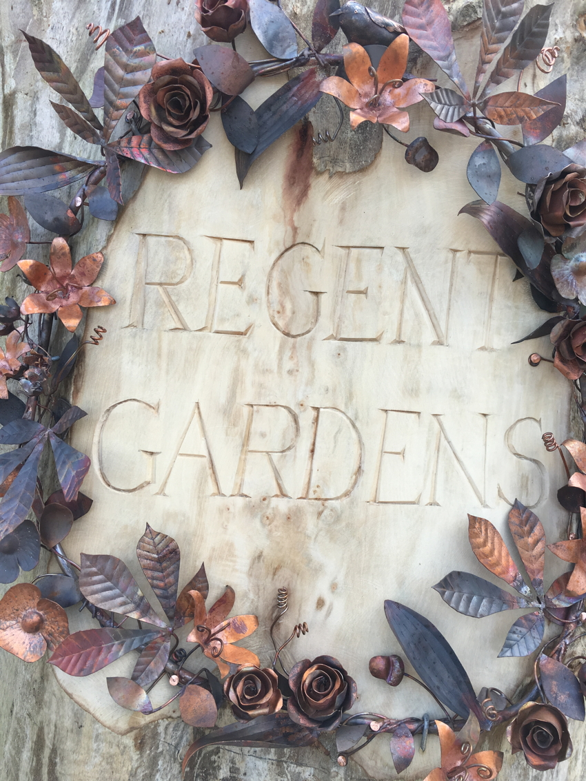 Regent Gardens entry sign